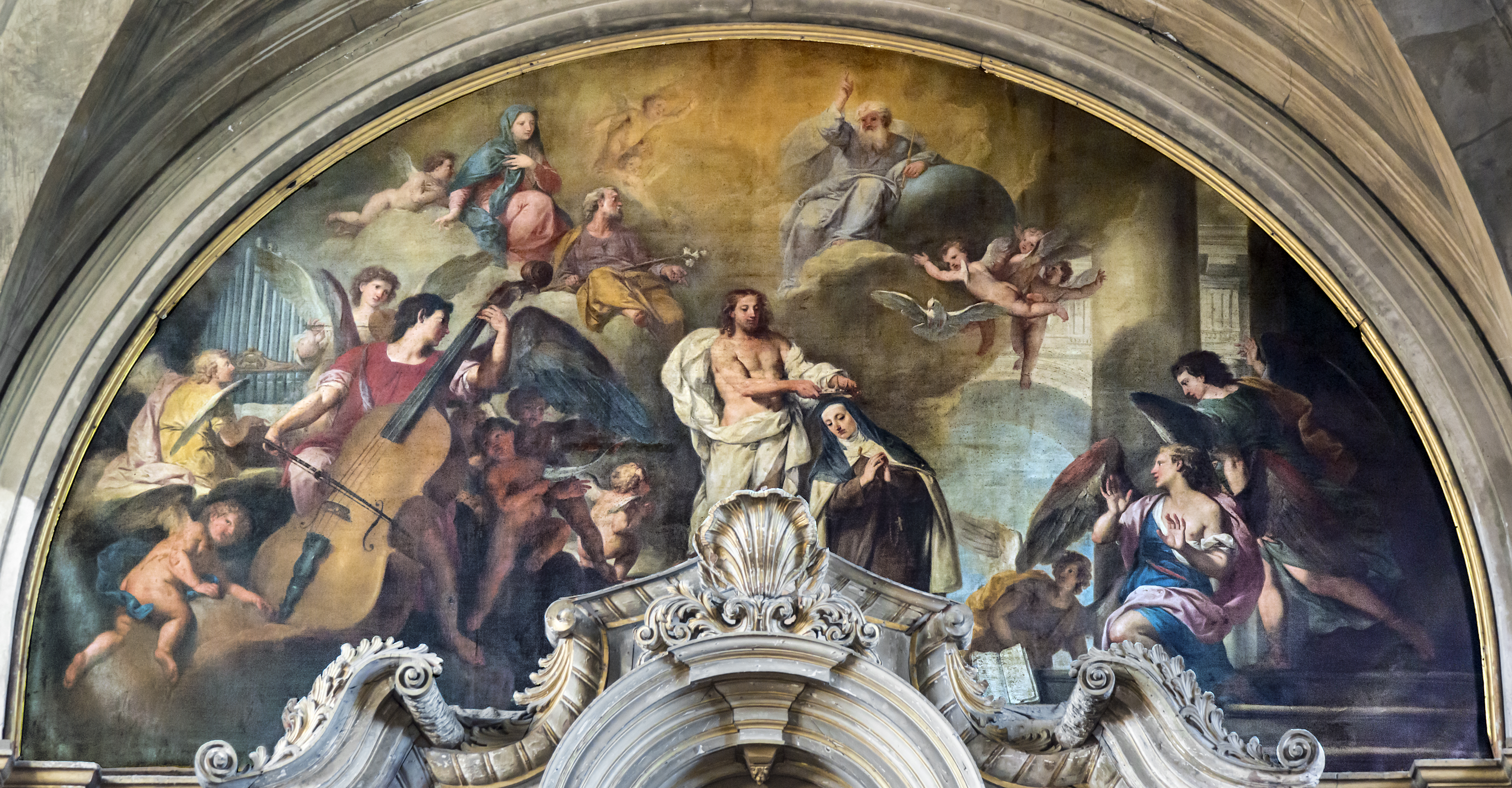 Church Santa Maria degli Scalzi Venice. Inside facade - Santa Teresa crowned by the Savior by Gregorio Lazzarini.